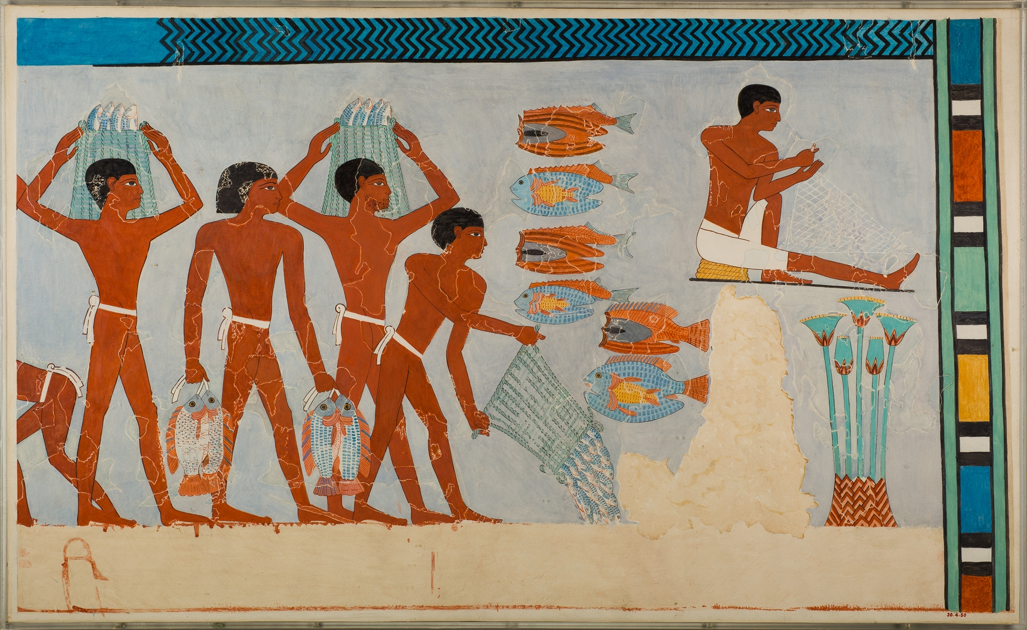 Facsimile, Amenhotep (TT 73), fish preparation, net making